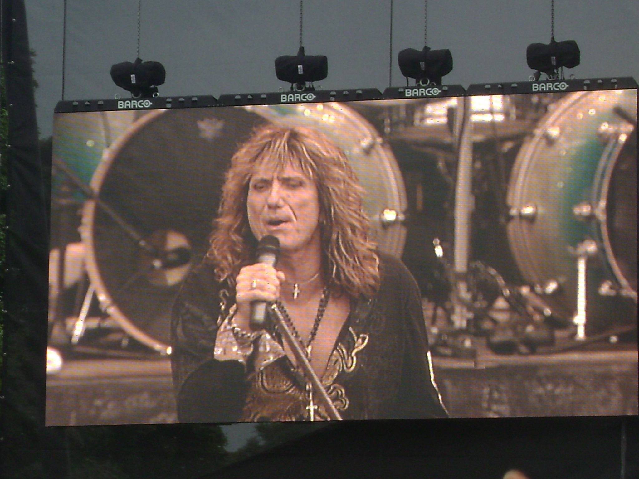 David Coverdale performing on the Arrow Rock Festival 2008, in Nijmegen, the Netherlands.